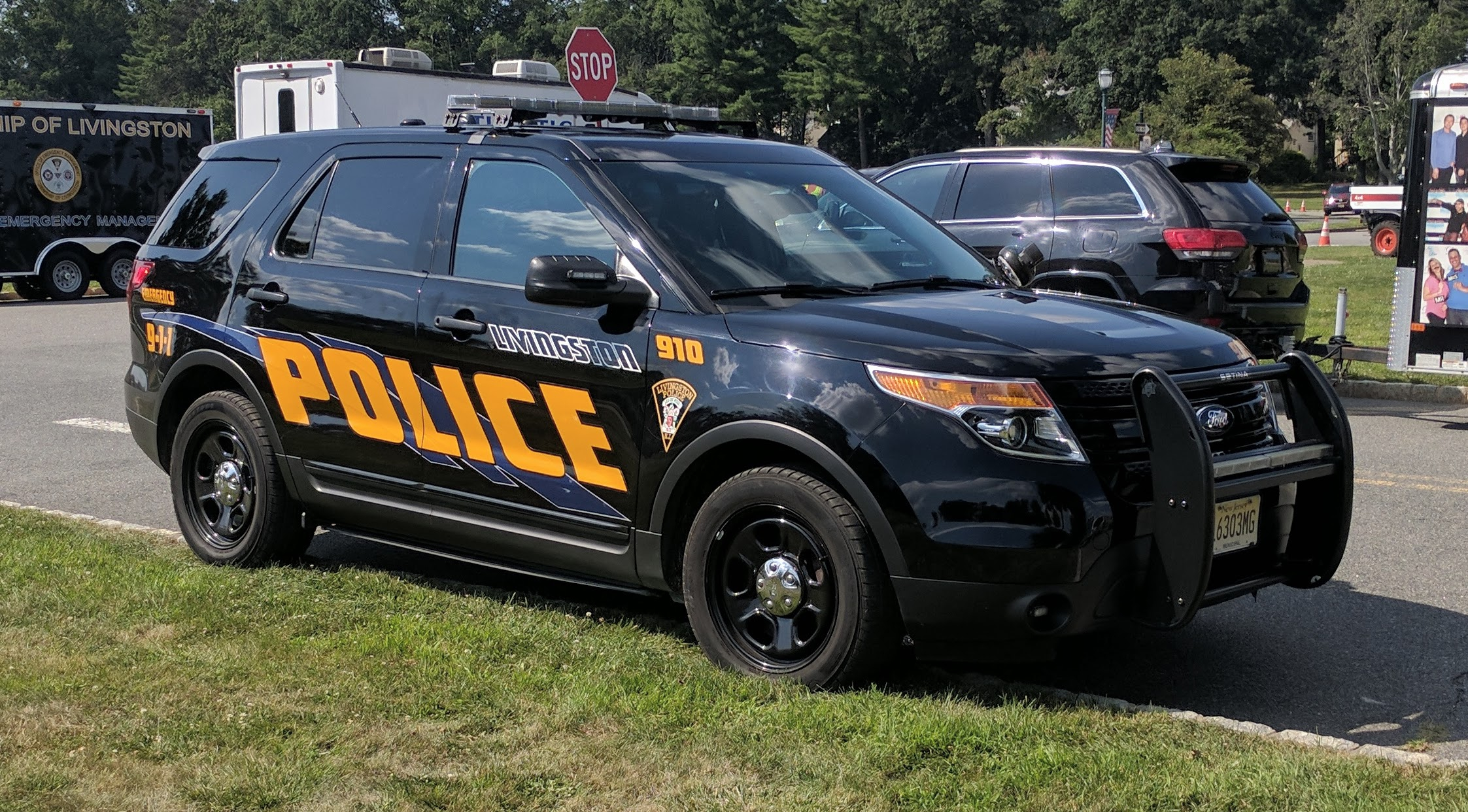 A Ford Police Interceptor SUV of the Livingston, NU, USA police department.